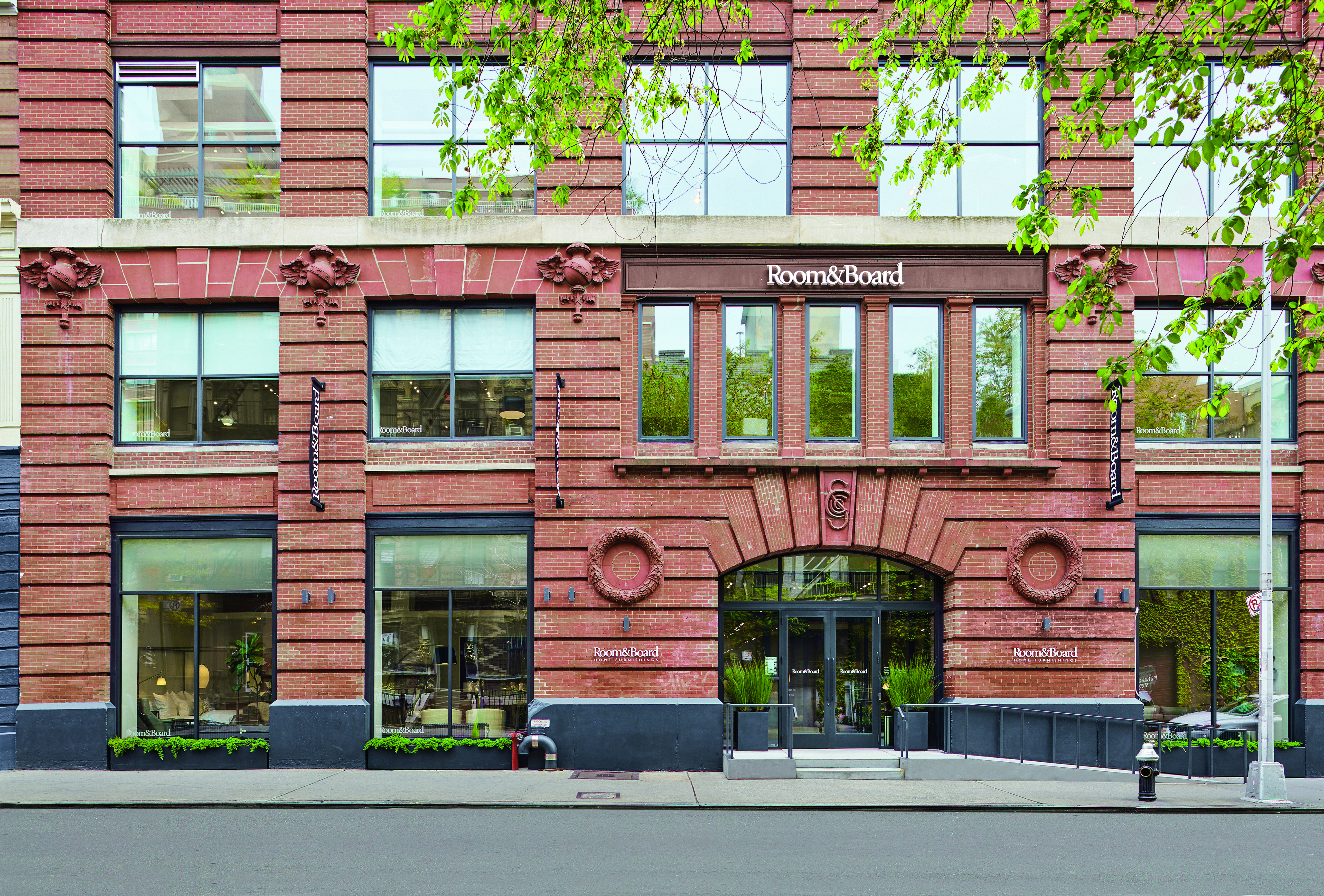 Exterior of the Room & Board modern furniture store in Chelsea, New York City